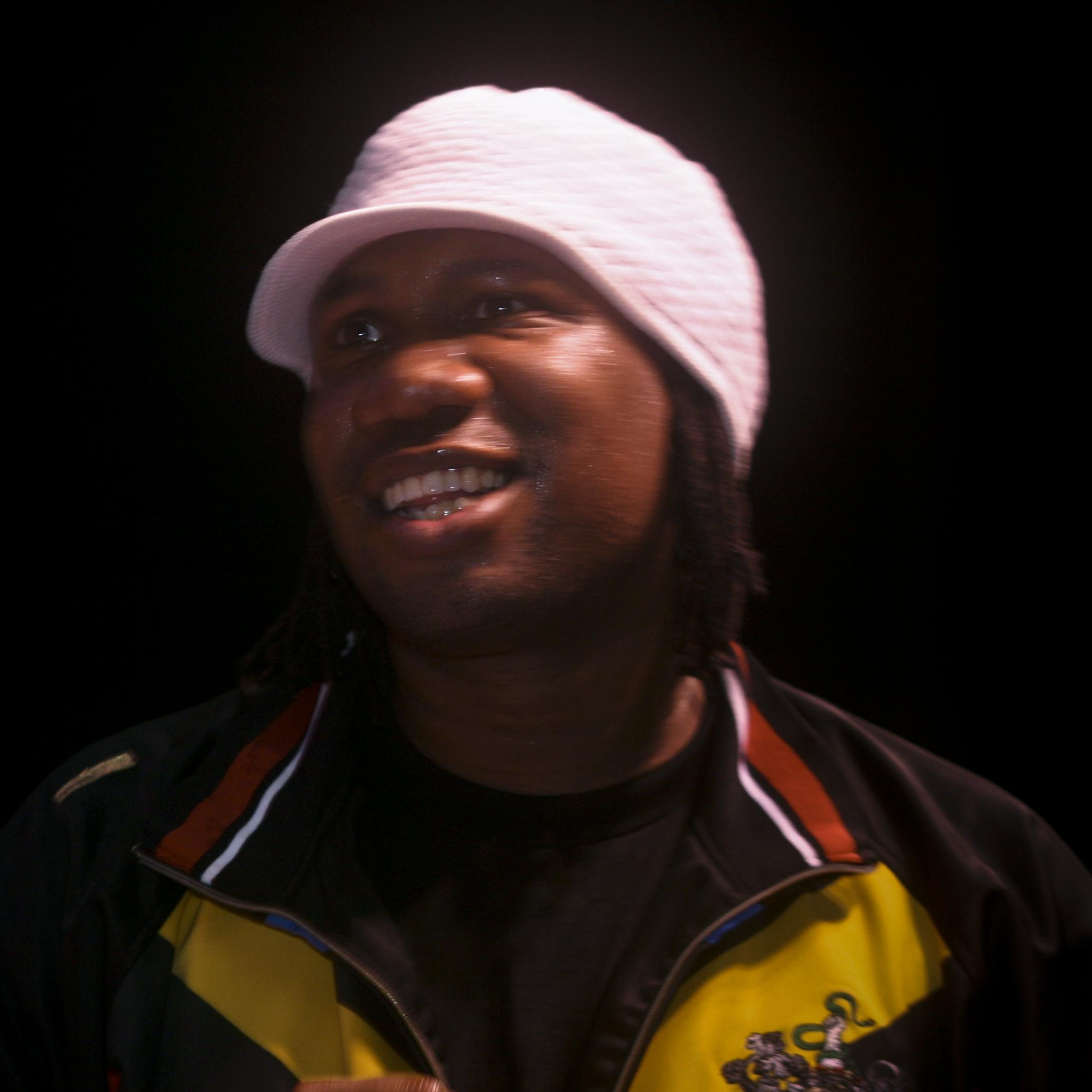 KRS-One, an American rapper in Wilmington, Delaware.